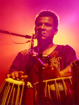 Asheem Chakravarty (tabla, percussions & vocals) of Indian Ocean (band)